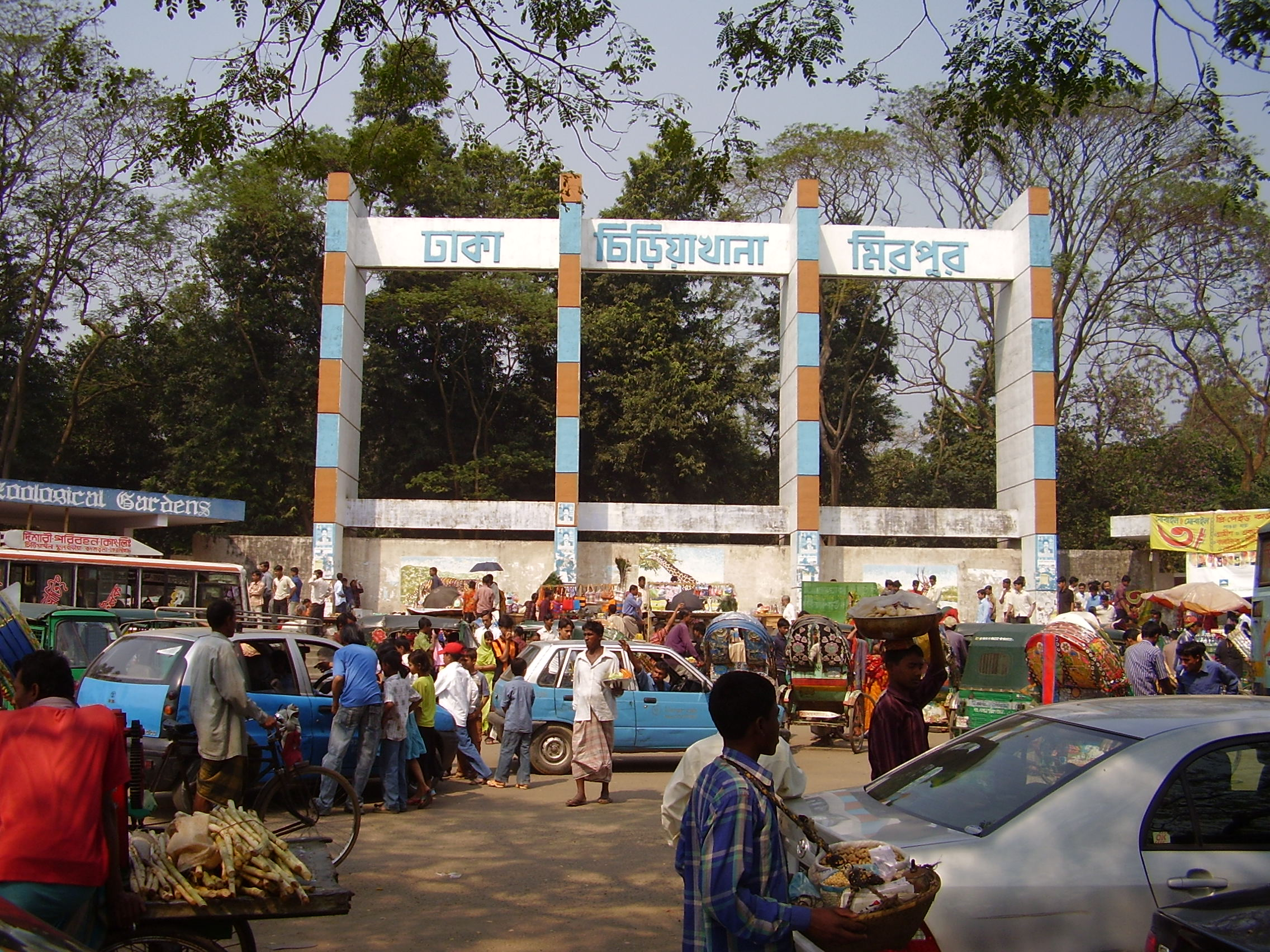 Author: Shahnoor Habib Munmun